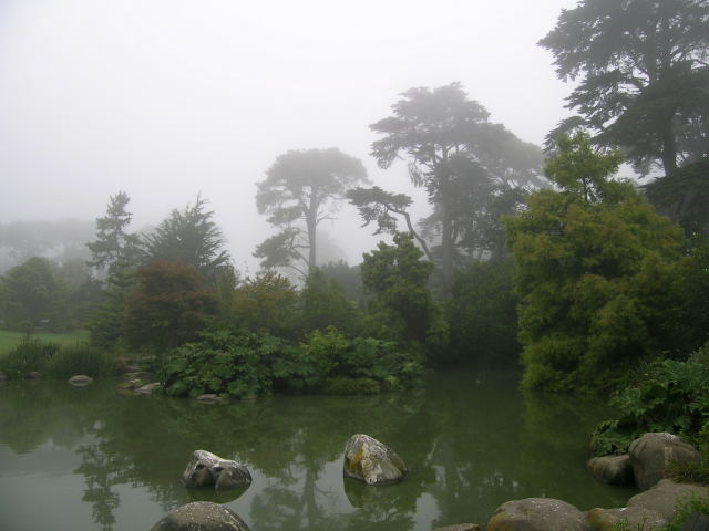 San Francisco Botanical Garden